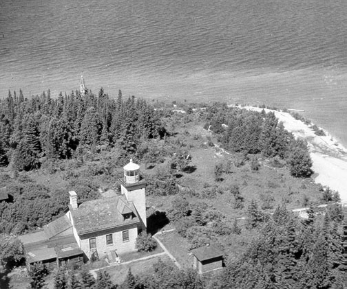 Depicted place: Bois Blanc Light